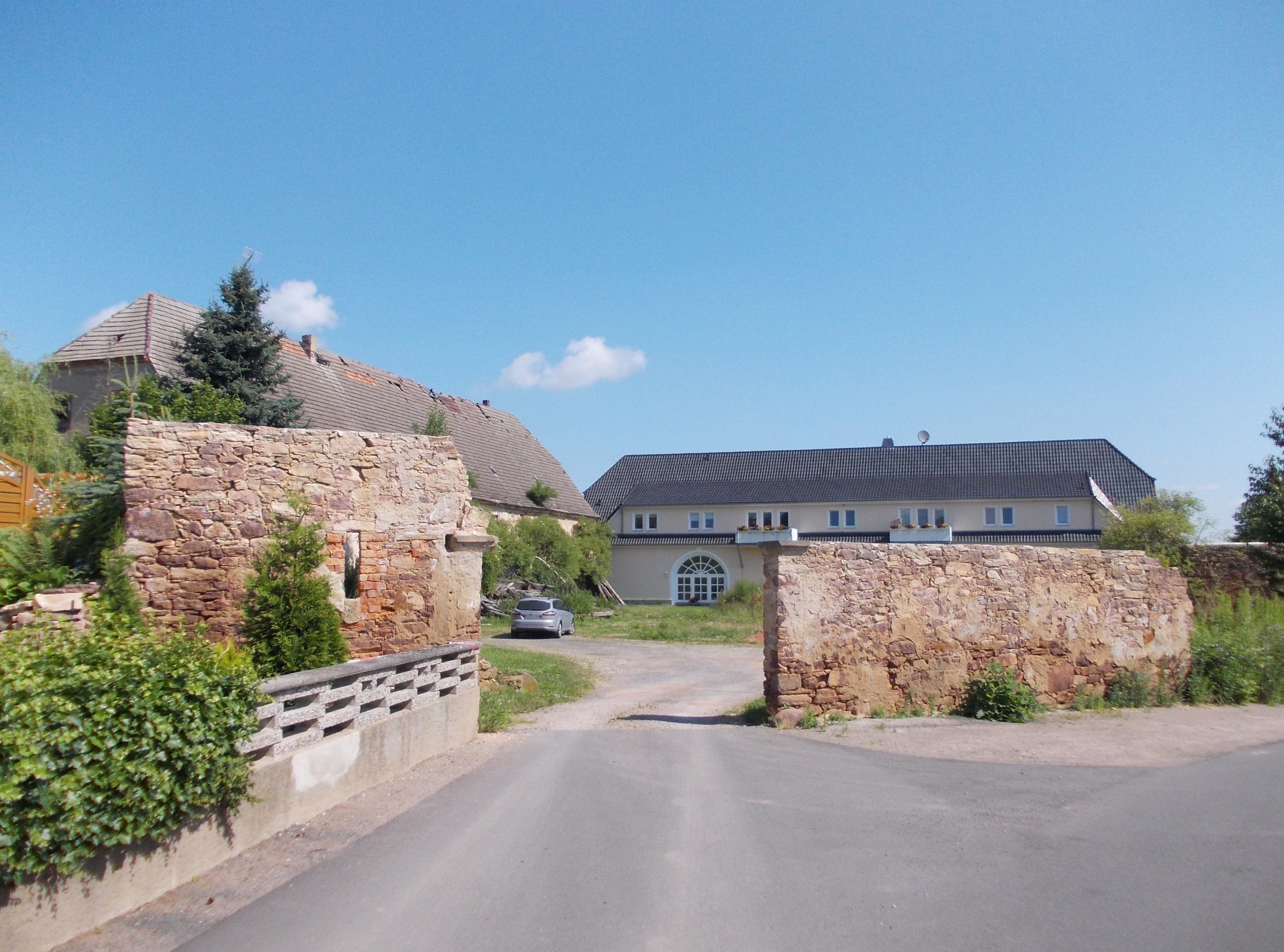 Hausdorf estate (Colditz, Leipzig district, Saxony)